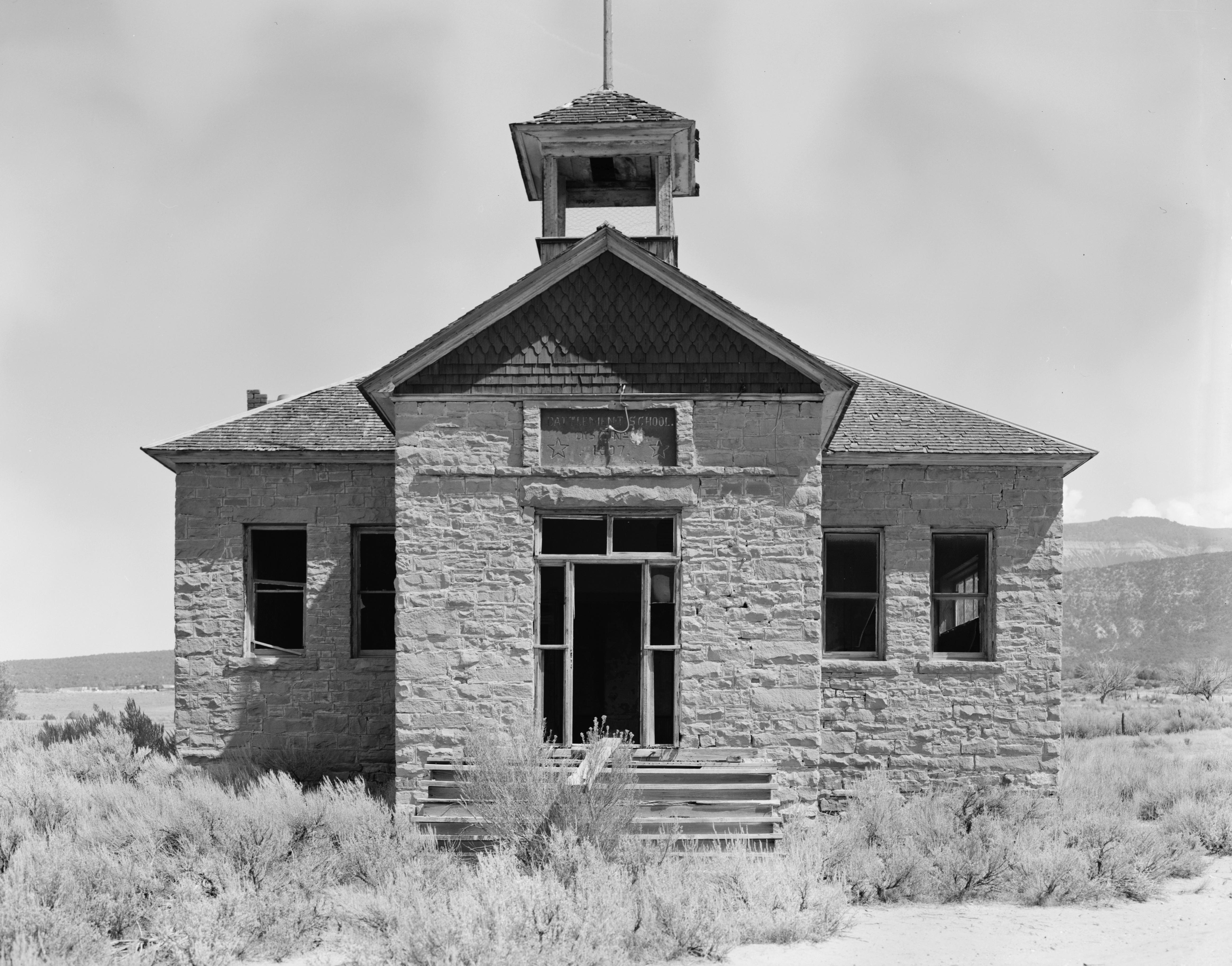 Front of the Battlement Mesa Schoolhouse, located at 7201 300 Road near Battlement Mesa in Garfield County, Colorado, United States. Built in 1897, it is listed on the National Register of Historic Places.